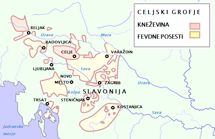 Territory of Counts of Celje in the Middle of 15th Century. Compare with: Čepič et al. (1979): Zgodovina Slovencev. Ljubljana, Cankarjeva založba. Page 214-219 and page 222; Kos Milko (1933): Zgodovina Slovencev od naselitve do reformacije. Ljubljana, Jugoslovanska knjigarna. Pages 213-224 and Map III on page 256/4; Habjan Vlado (1997): Mejniki slovenske zgodovine. Ljubljana, Založba 2000. Page: 79-82 and map on the page 88.